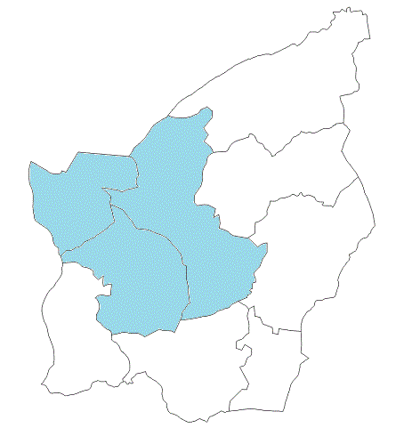 San Marino with Acquaviva in 1243